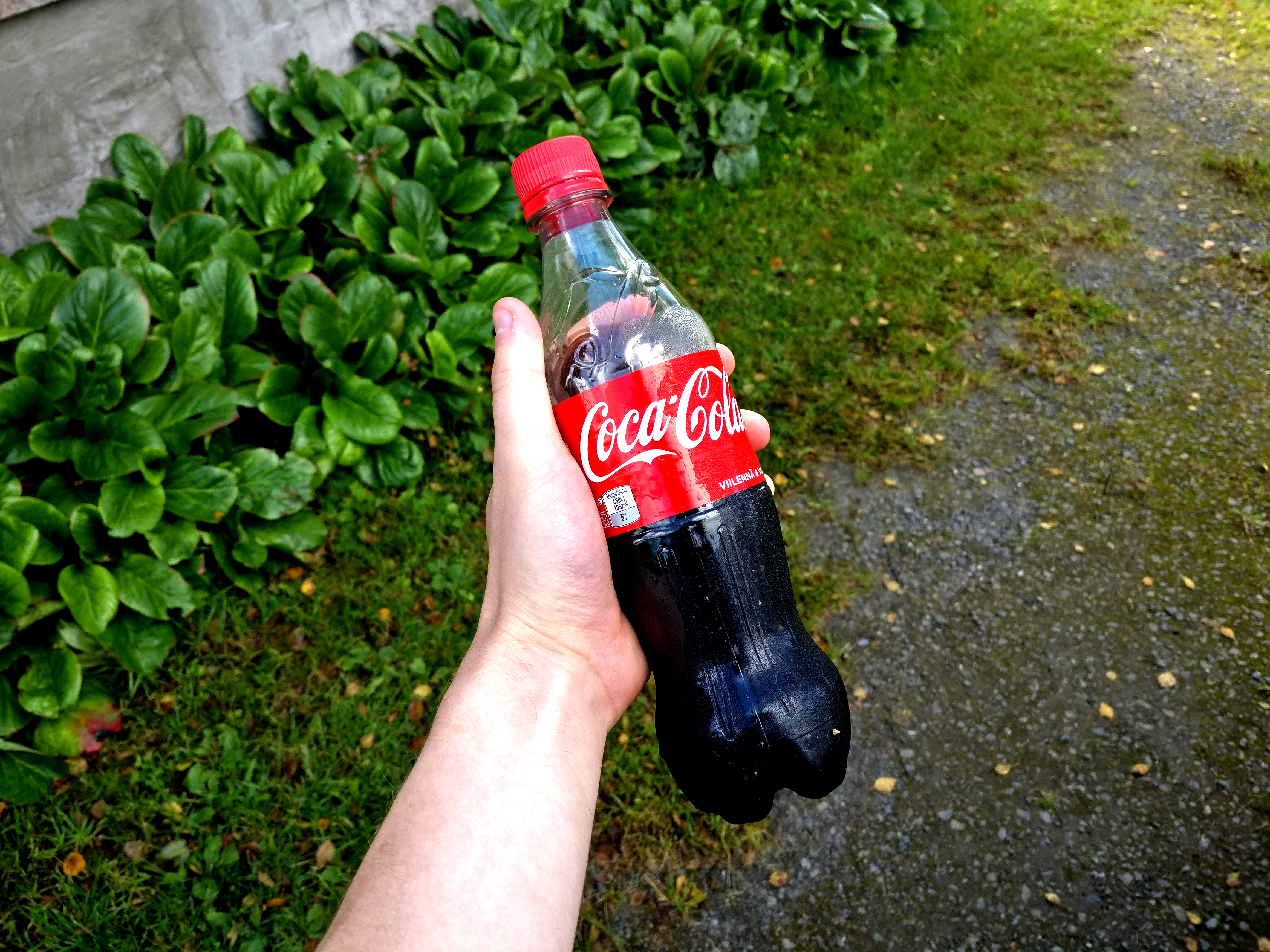 Hand holding plastic Coca-Cola bottle.